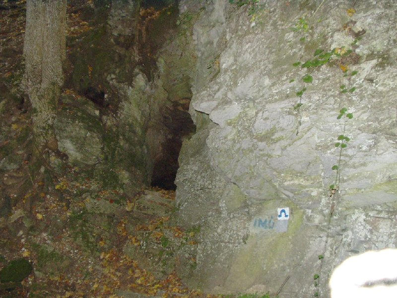 Entrance of the Cave of Imó-kő Spring